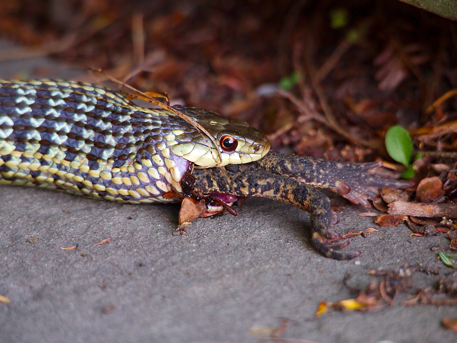 Common/Eastern Garter Snake (Thamnophis sirtalis) swallowing a American toad (Bufo americanus).